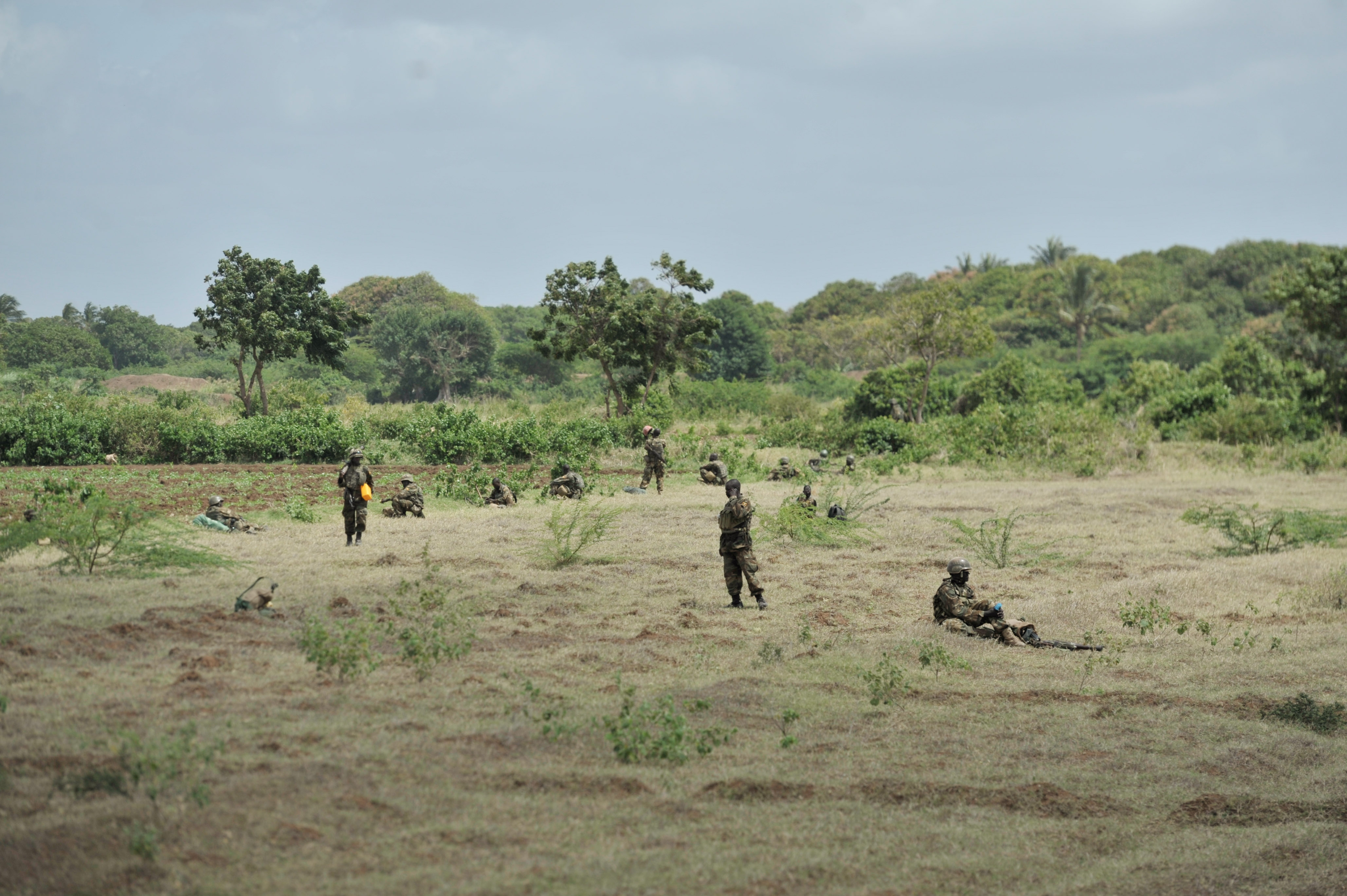 Ugandan troops, as part of the African Union Mission in Somalia, set up a forward operating base outside the town of Golweyn, after having liberated it from Al Shabab in Somalia's Lower Shabelle region on August 30. The AMISOM offensive is part of Operation Indian Ocean, which aims to liberate several new towns in the region from the terrorist organization. AMISOM Photo / Tobin Jones